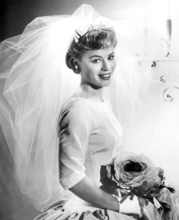 Publicity photo of Abby Dalton as Martha Hale from the television program Hennessey. This is from the last episode of the show where Hale and Hennessey get married.